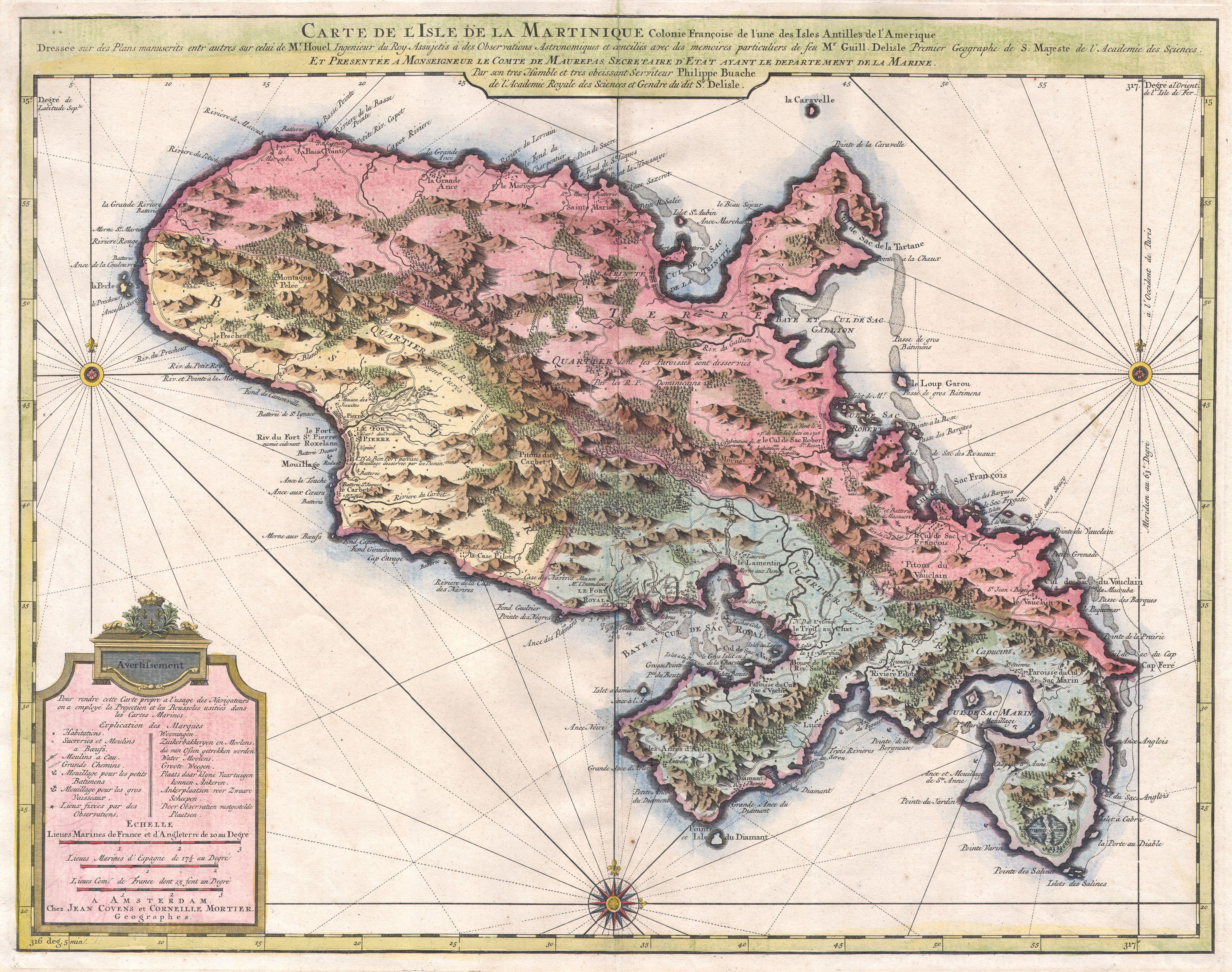 A beautiful example of Covens & Mortier’s 1742 map of the French colony of Martinique in the West Indies. Depicts the Island of Martinique divided into three sections, two in the south and one in the north. Includes both political and topographical information. Beautifully hand colored. Based upon the work of Guillaume DE L'ISLE (1675-1726) and Phillippe BUACHE (1700-1773). Prepared for the 1742 issue of Covens and Mortier’s Atlas Nouveau .